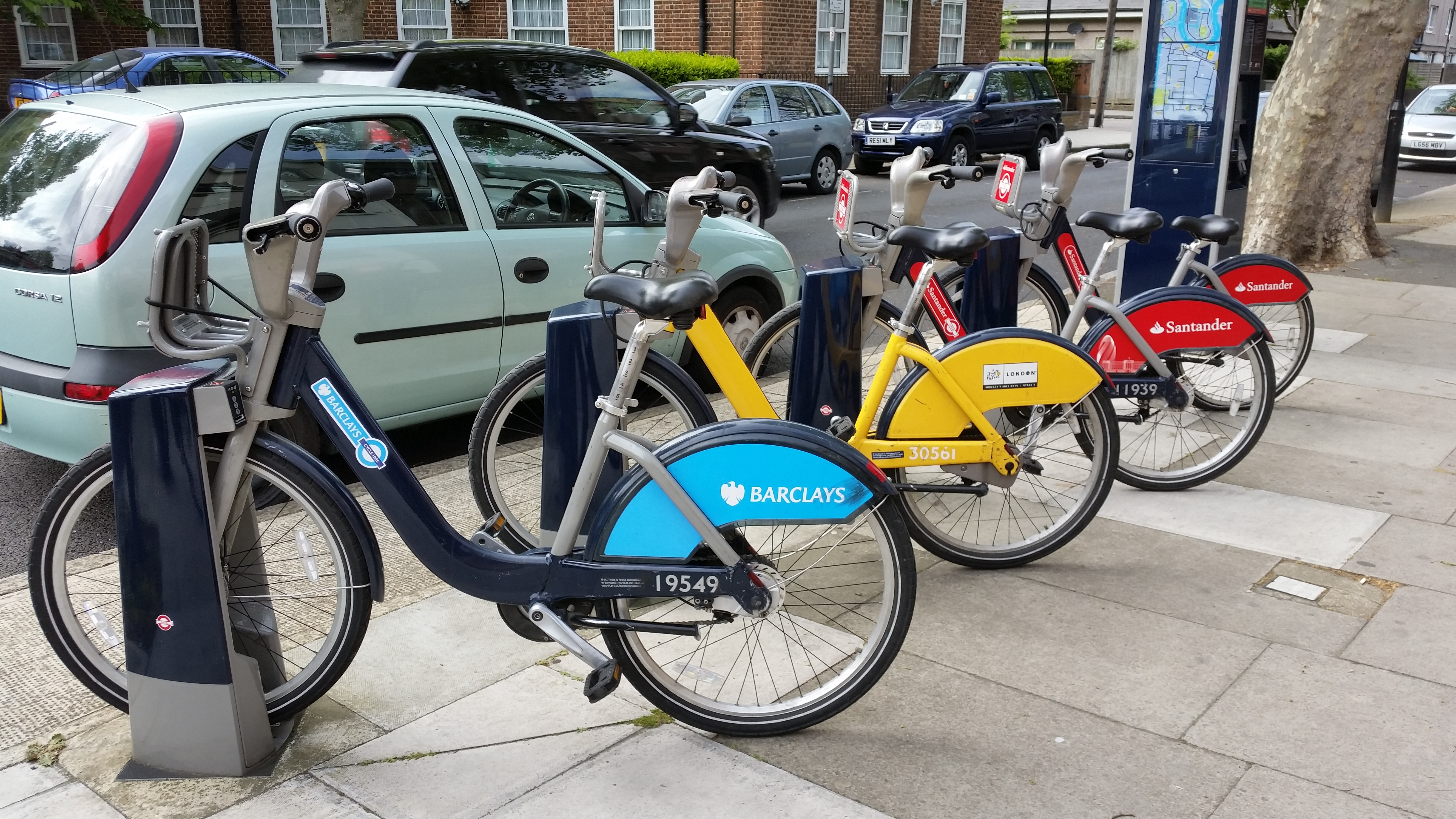 Blue (Barclays Cycle Hire), Yellow (Tour de France) and Red (Santander Cycles)-branded Boris bikes (cycle hire bicycles) in the docking station in Alpha Grove, Millwall on 1 May 2015